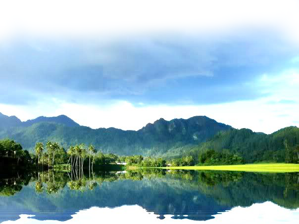 Tarusan Kamang